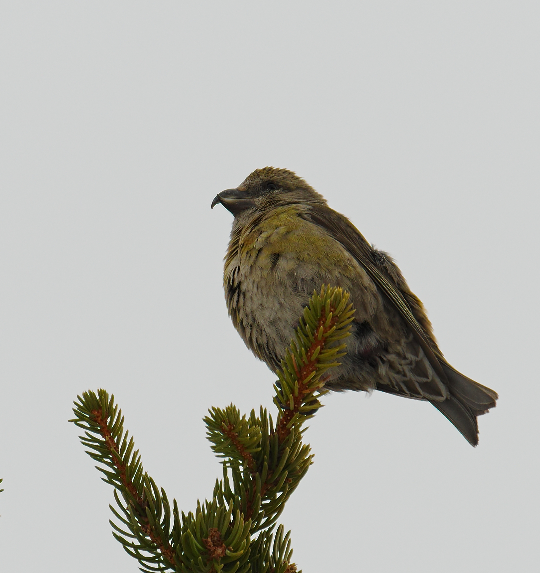 Paradiski, Red crossbill - Loxia curvirostra, young bird. Taken in La Plagne, Champagny-en-Vanoise, Savoie, France.